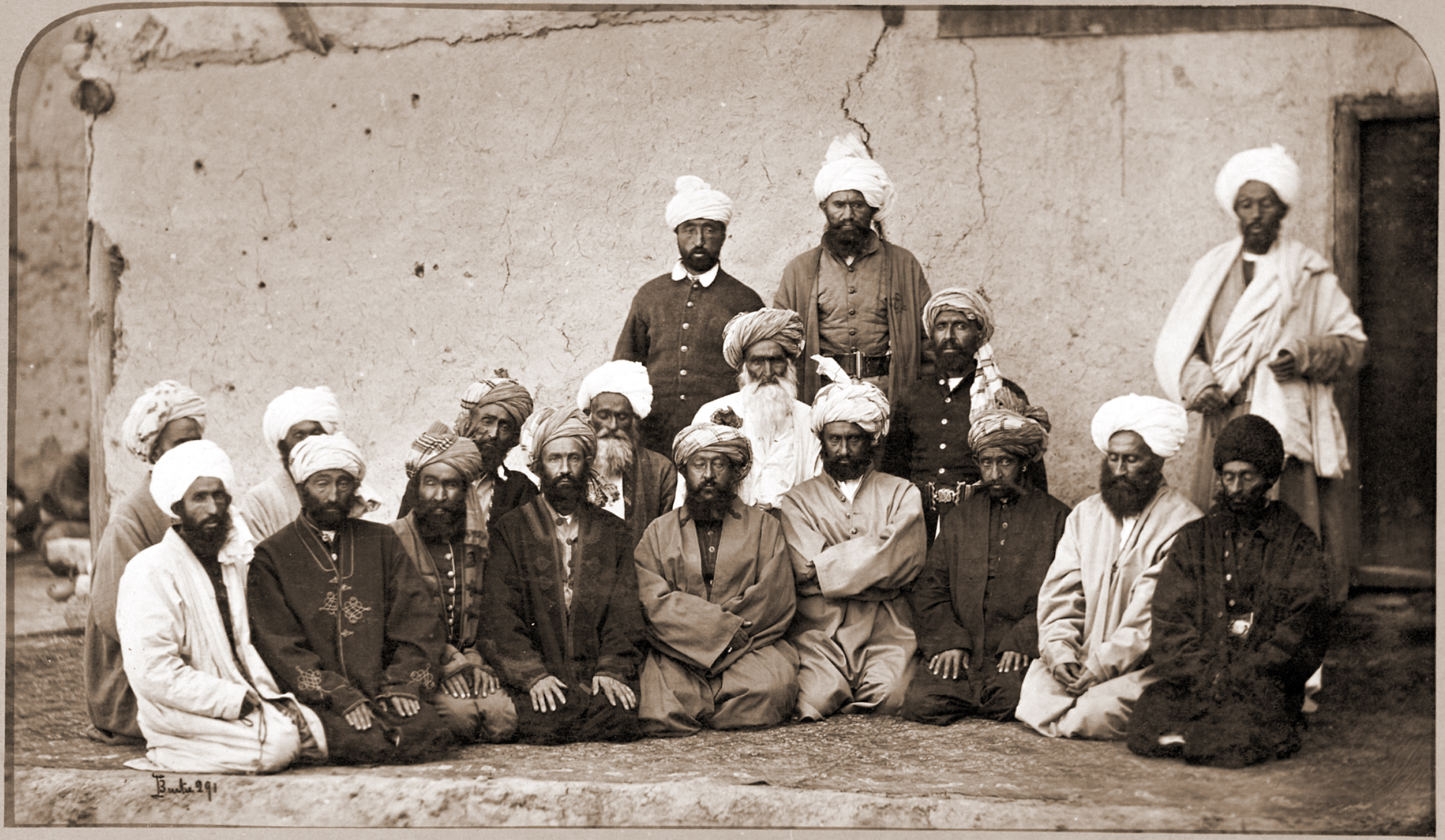 Sirdar Habeeboolah Gilzai and other Khans [Kabul].' Photograph of a group of Afghan chieftains taken at Kabul in Afghanistan by John Burke in 1879-80. Burke names one of them as Sardar Habibullah Khan who was a chieftain of the Ghilzais, a widespread and powerful Pashtun tribe who extended from Kilat-i-Ghilzai in the south to the Kabul river in the north, and from the Gul Koh range on the west to the Indian border on the east. Burke accompanied the British army into Afghanistan in 1878 and worked steadily in the hostile environment of Afghanistan and the North West Frontier Province, recording military and topographical scenes as well as the peoples of the country during the Second Afghan War (1878-80). Burke also photographed many darbars or meetings that took place between British combat leaders and Afghan chiefs which led to the uneasy peace treaties characteristic of the campaign. His two-year Afghan expedition produced a visual document which resulted in his achieving significance as the photographer of the region of the Great Game (concerning Anglo-Russian territorial rivalry). In the winter of 1879, through to the summer of 1880, the British force called the Kabul Field Force occupied Kabul. Its commander General Roberts was tasked with securing Kabul and maintaining lines of communication via the Khyber Pass with the rest of the British forces, meanwhile negotiations to bring an end to the war and place a new Amir on the throne of Kabul were going on. Burke spent many months in Kabul and took a series of images of its residents.